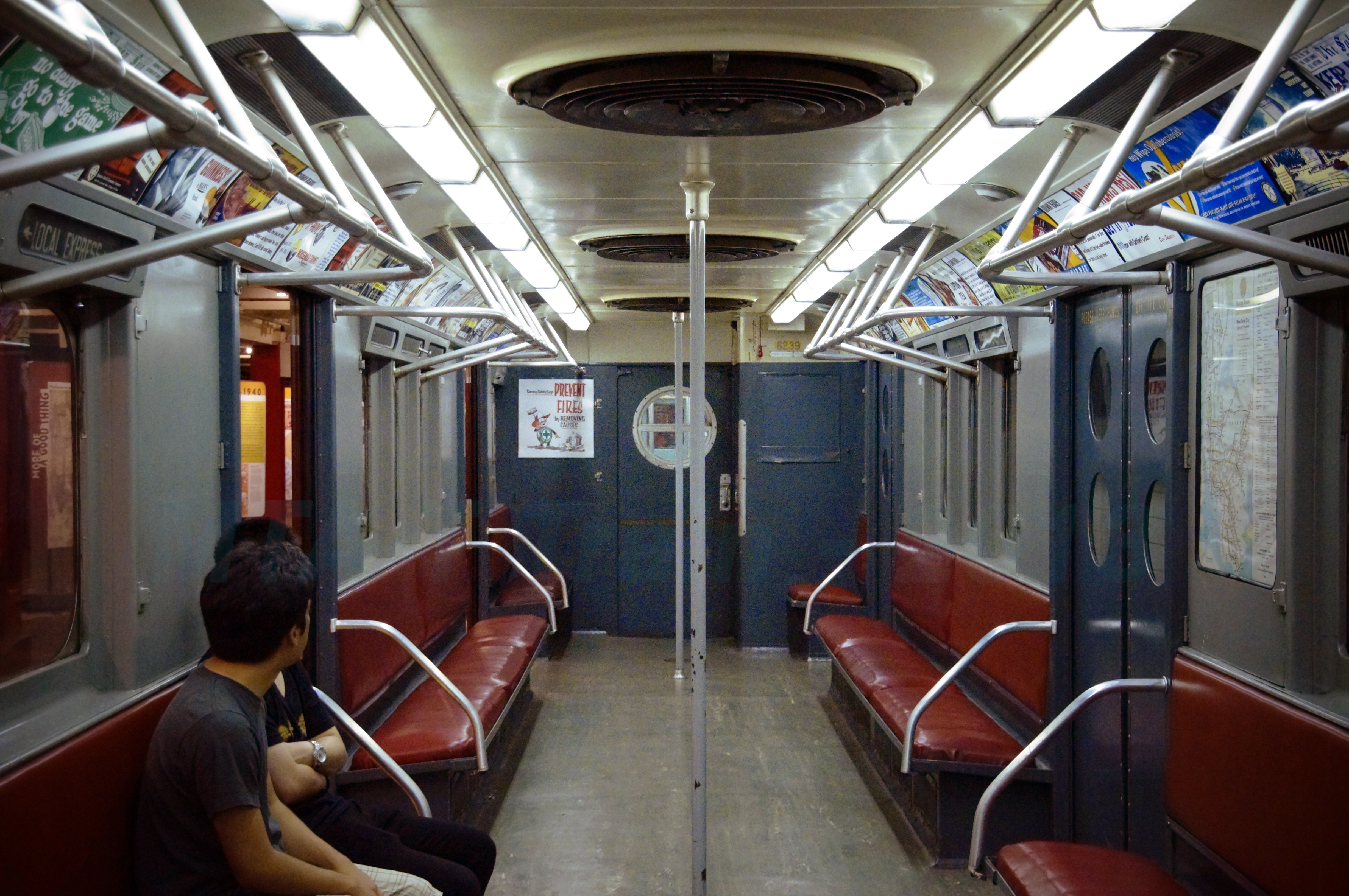 A view of the interior of MTA NYC Subway ACF R15 6239.